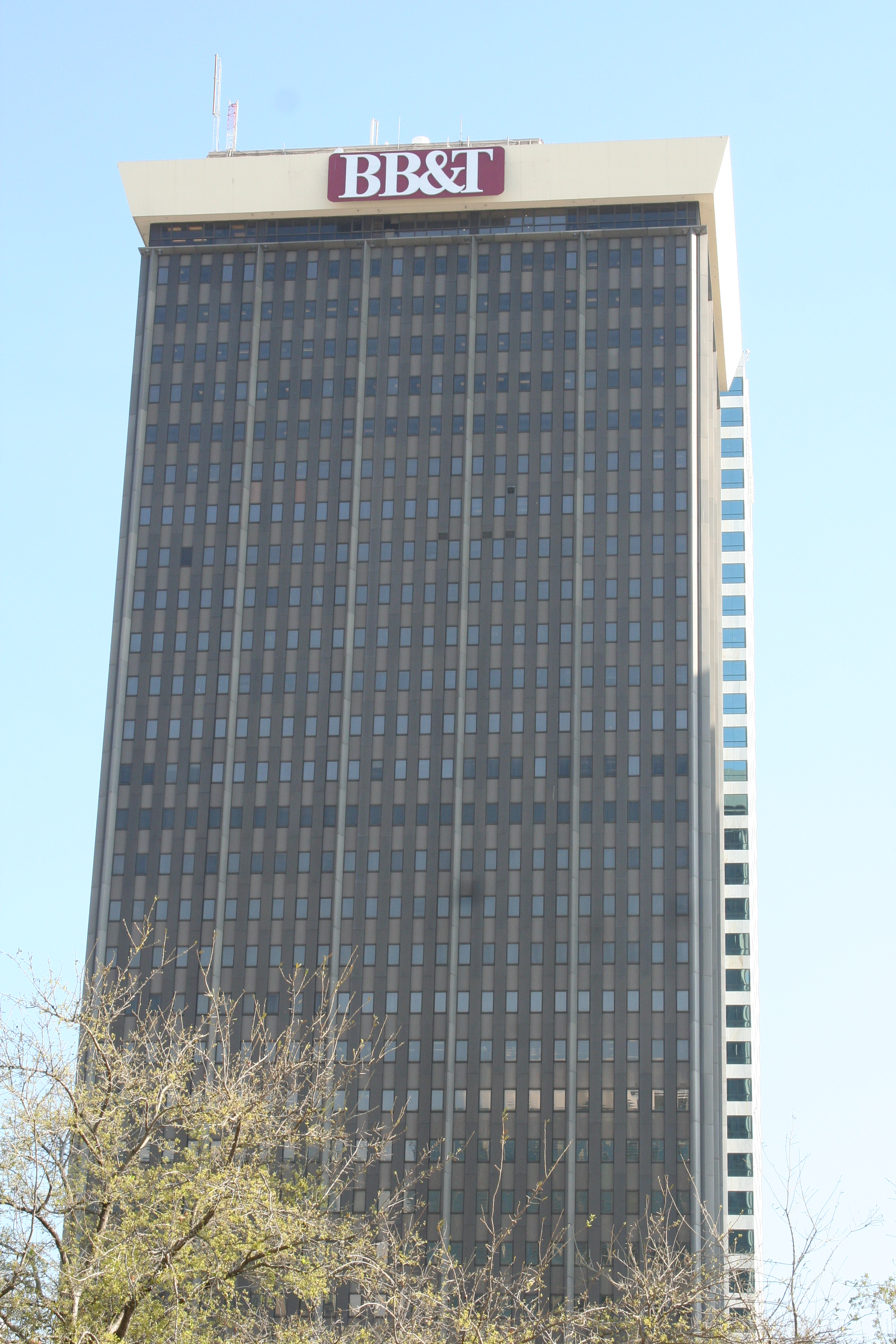 BB&T building in downtown Tampa 2012